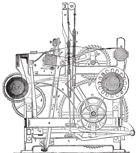 Images from Marsden 1892 book on Cotton Weaving. *Marsden, Richard (1895) (in english) Cotton Weaving: Its Development, Principles, and Practice, George Bell & Sons, pp. 584 Retrieved on Feb 2009.